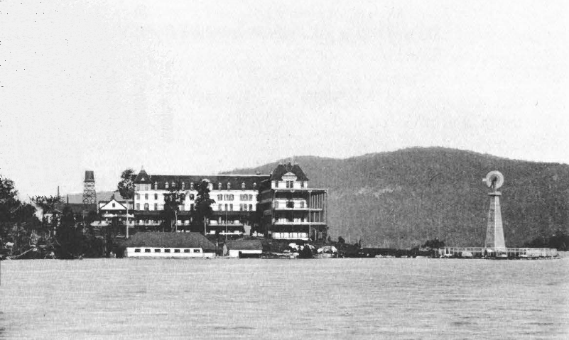 Prospect Hotel, close-up crop